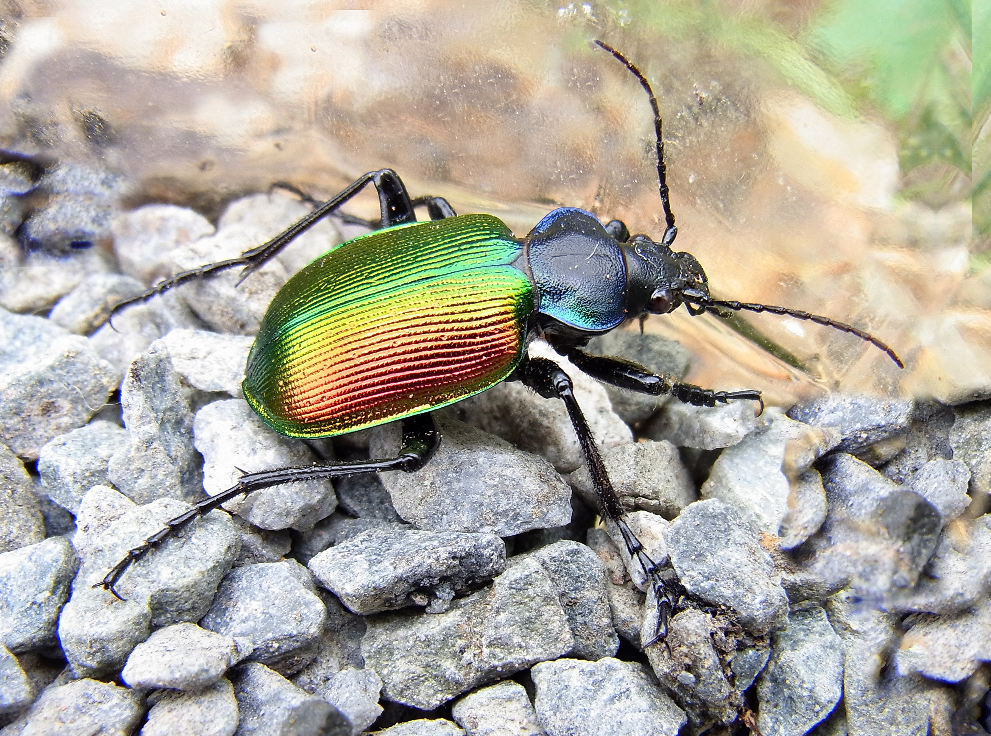 Calosoma sycophanta from France, north of Carcassonne at 2011-06-08